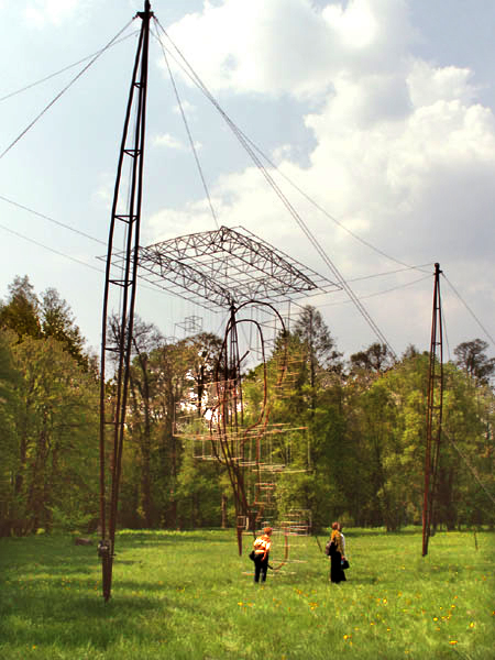 Centre of Polish Sculpture - Oronsko, Adam Kalinowski, Big Ear, 2005